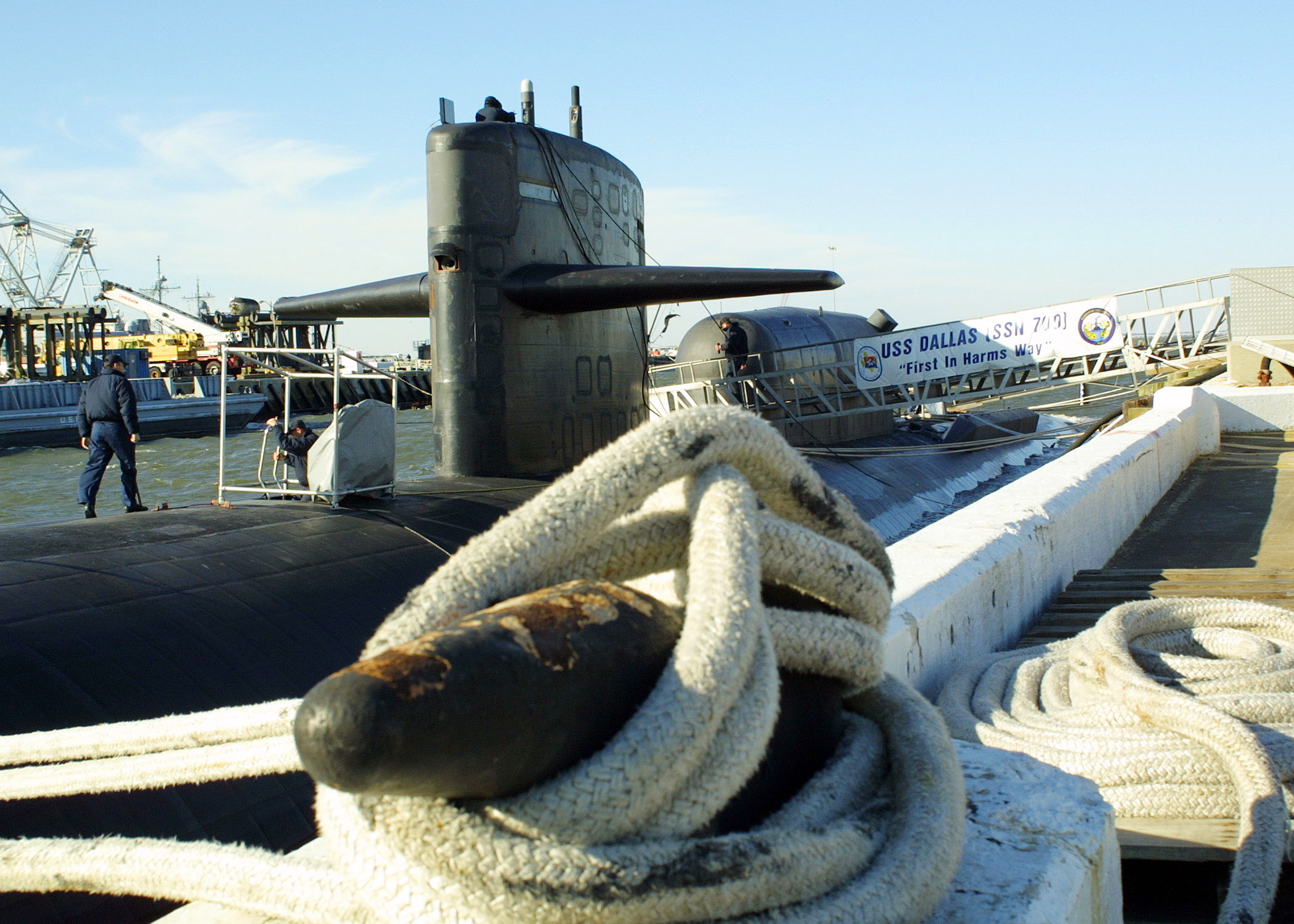 Norfolk, Va. (Feb. 6, 2006) - The Los Angeles-class fast attack submarine USS Dallas (SSN 700) sits pierside with the Dry Deck Shelter (DDS)-equipped submarine attached to its aft escape trunk. DDS is the primary supporting craft for the SEAL Delivery Vehicle (SDV). SDV is a "wet" submersible, designed to carry Seals and their cargo in fully flooded compartments to provide a dry environment while preparing for special warfare exercises or operations. U.S. Navy photo by Chief Journalist Dave Fliesen (RELEASED)